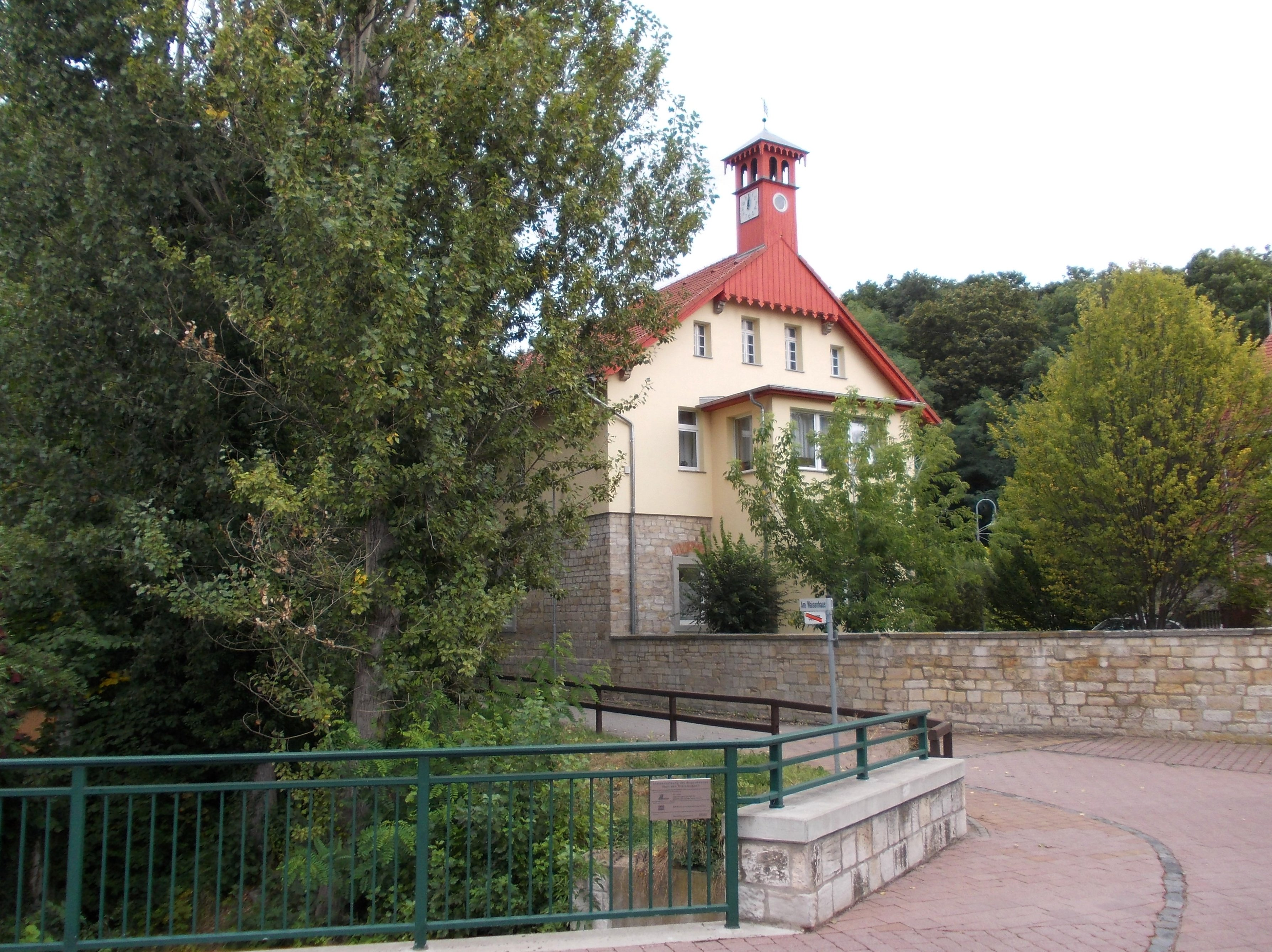 Former orphanage in Langendorf (Weissenfels, district: Burgenlandkreis, Saxony-Anhalt) today Christoph Buchen Home for handicapped persons